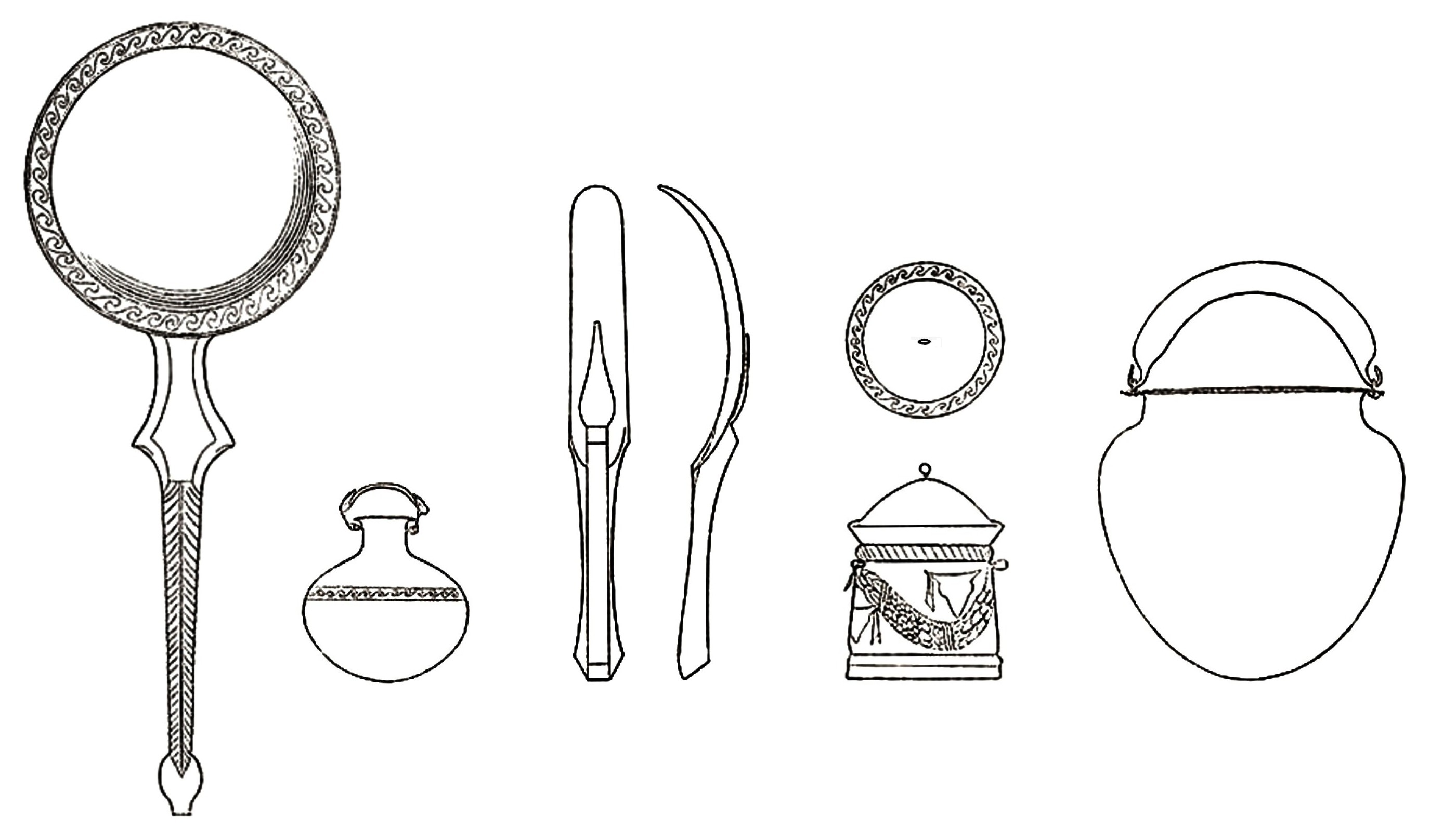 Objects from the Tomb of Seianti Hanunia Tlesnasa